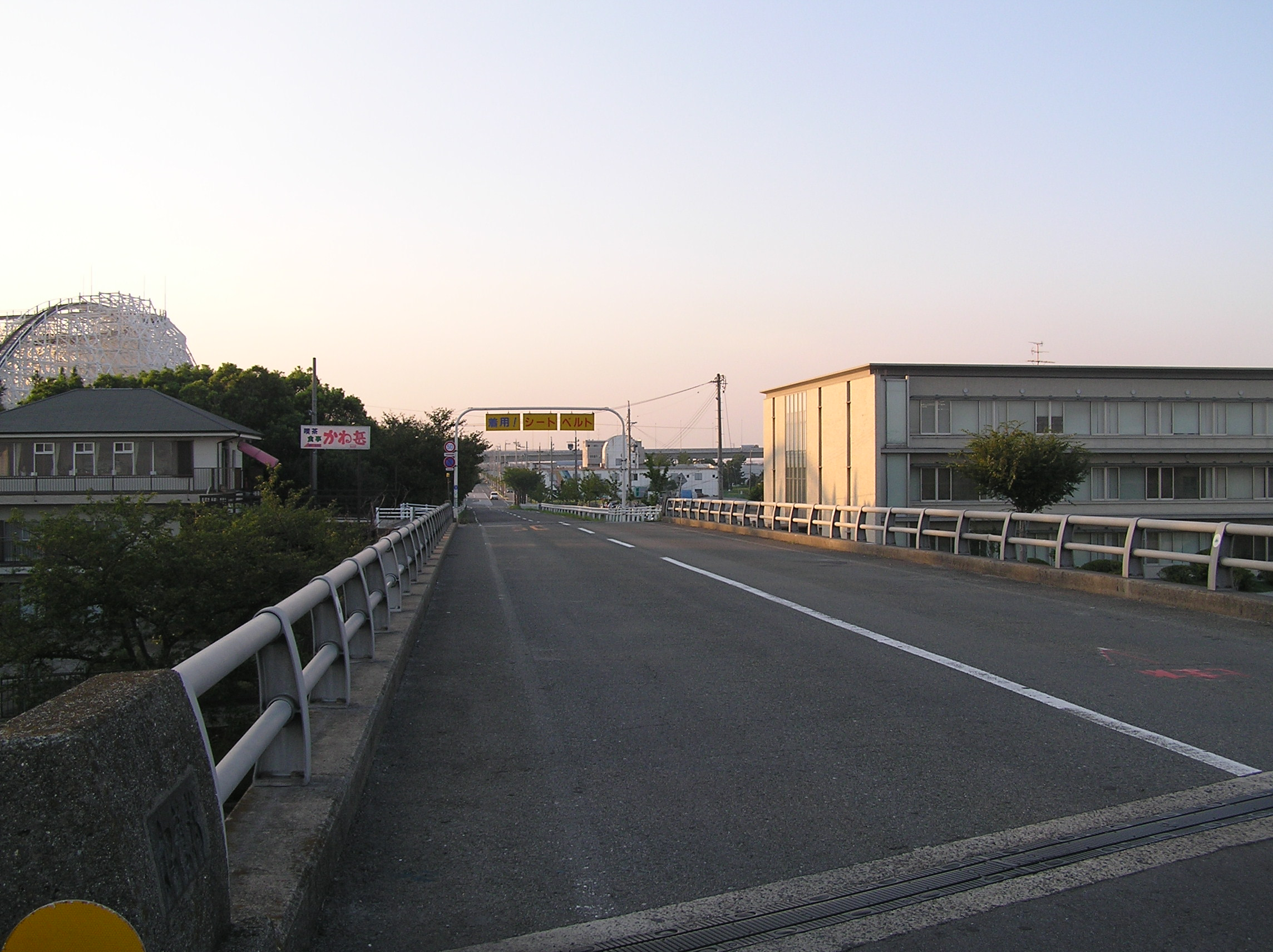 Mie Prefectural Road Route 7 Start Point(@Urayasu Nagashima-town Kuwana-city Mie-prefecture Japan)